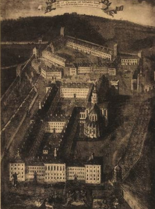 Engraving of the Imperial Abbey of Kaisersheim (now Kaisheim), circa 1700. Reproduction on a postcard published circa 1910.